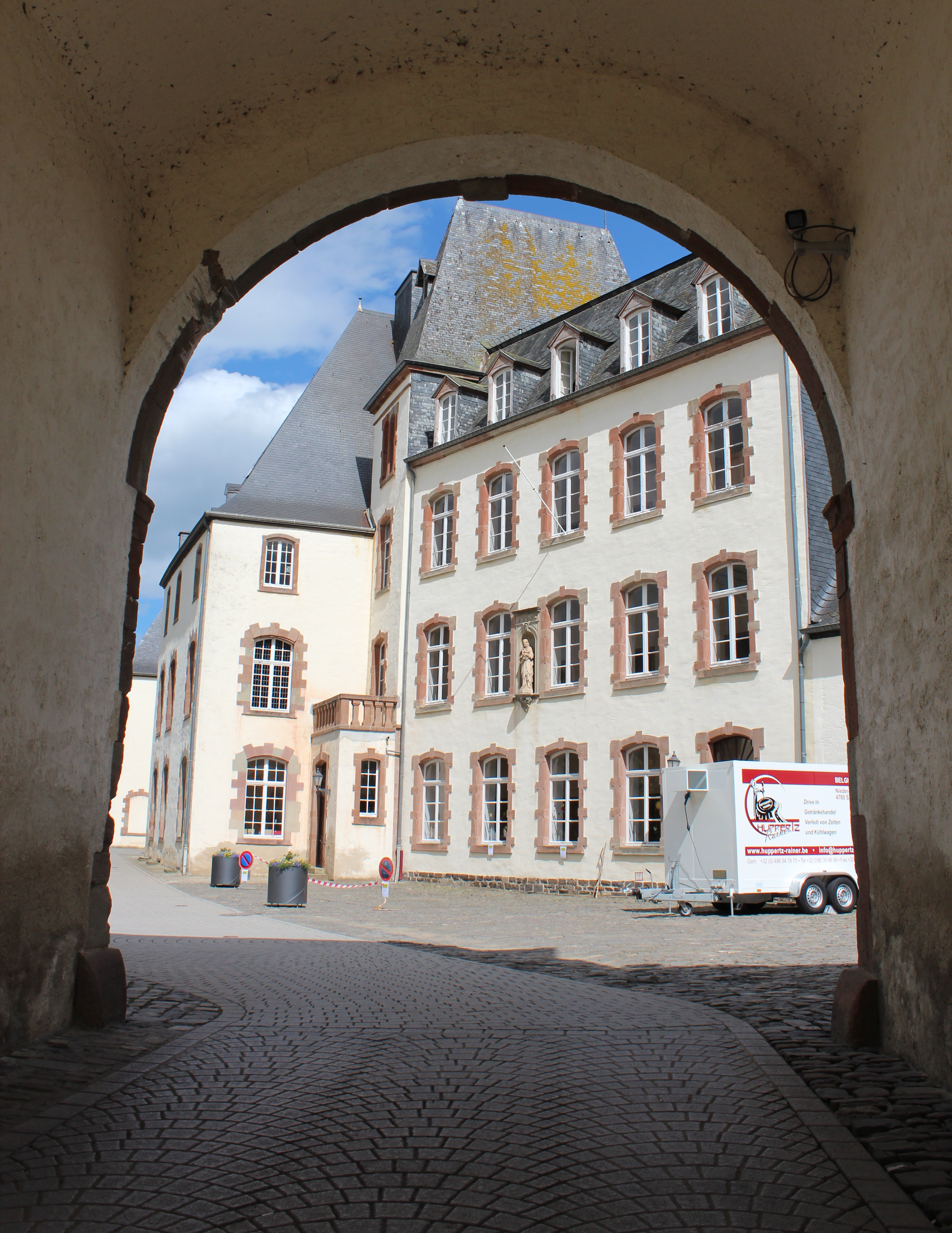 Wiltz castle